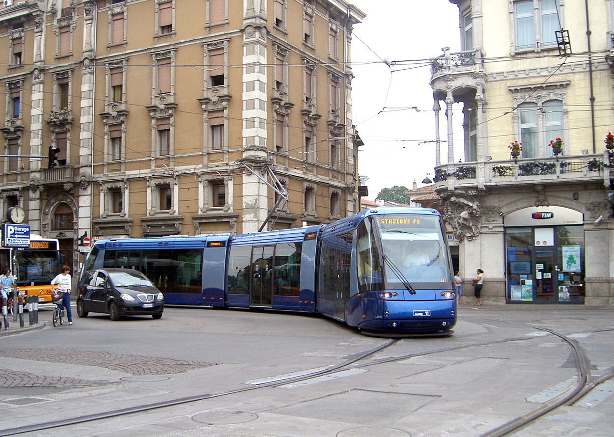 Negotiating a busy junction close to the main railway station.